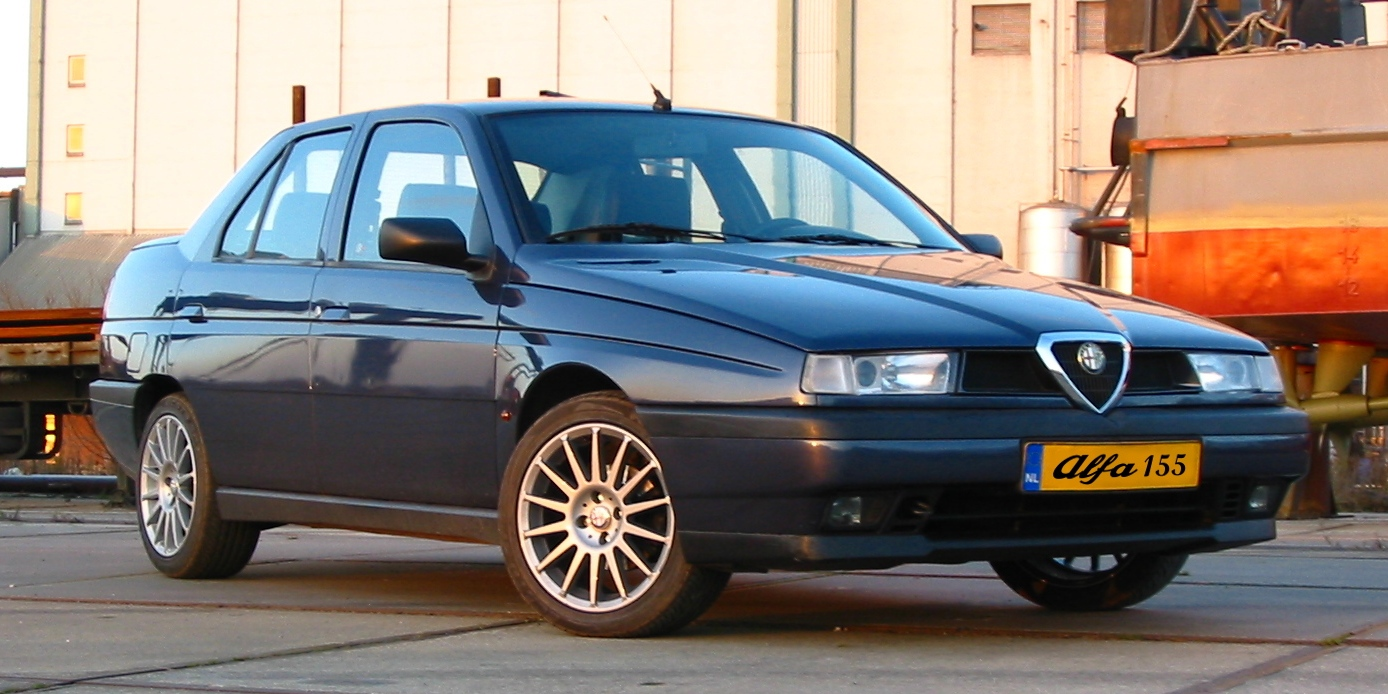 Alfa Romeo 155 1.7 8v wide body